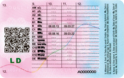 Albanian Driver's License